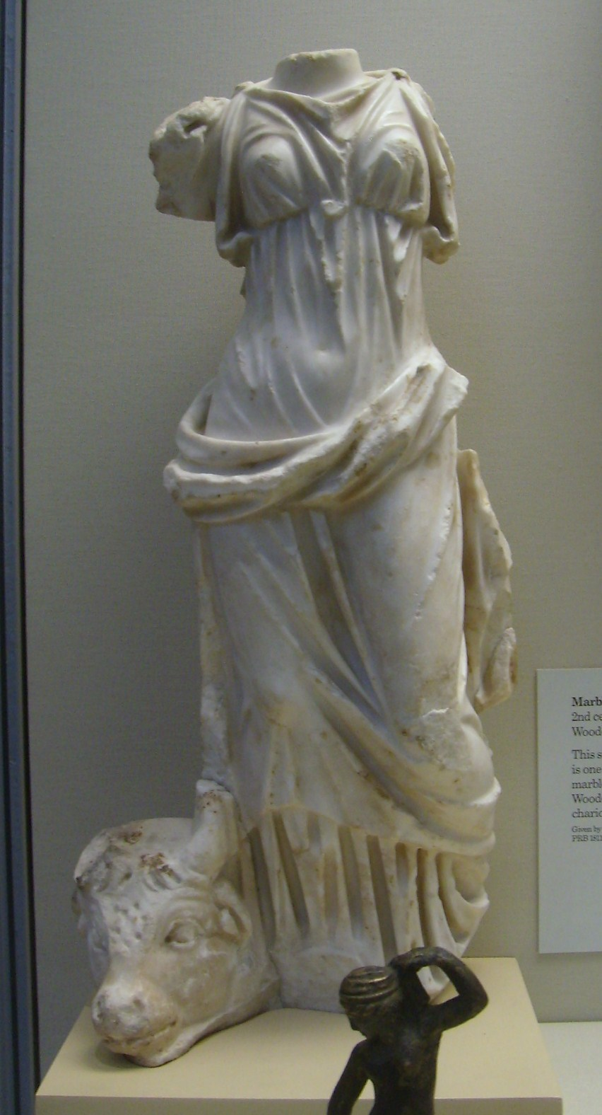 Woodchester, statue of the second century, found in the Roman villa of Woodchester